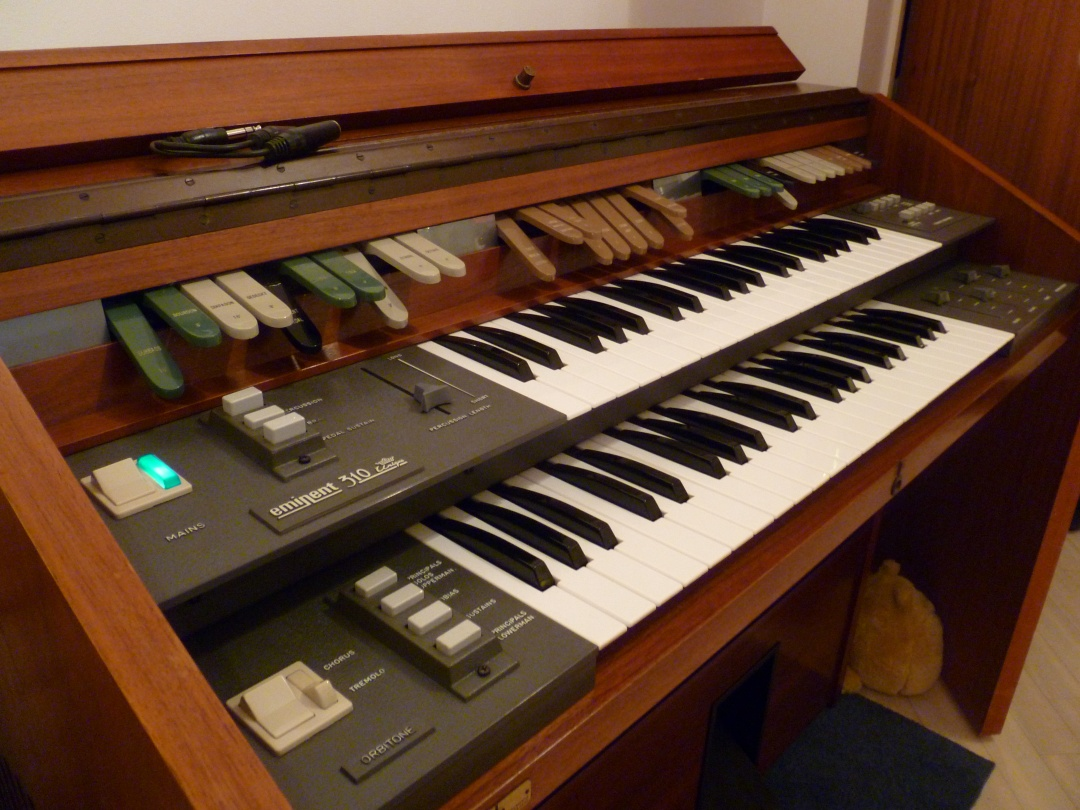 Overview of the upper section of the dutch 1970s and 1980s Eminent 310 Unique electrical synthesizer organ.